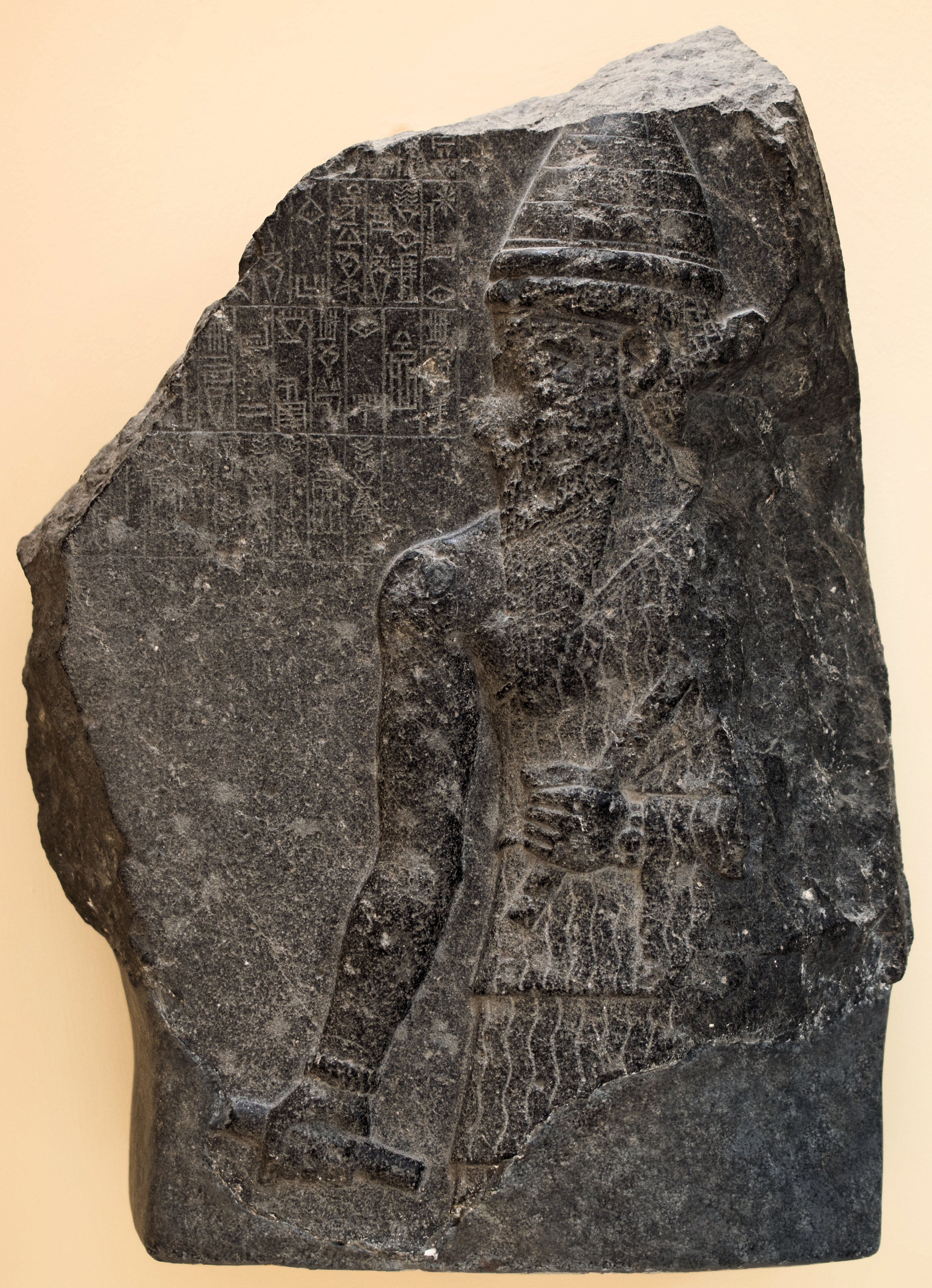 Stele of Naram-Sin of Akkad. Stele of the Akkadian king Naram-Sin at Istanbul's archaeological museum. The "-ram" and "-sin" parts of the name "Naram-Sin" appear in the broken top right corner of the inscription, reserved for the name of the ruler.